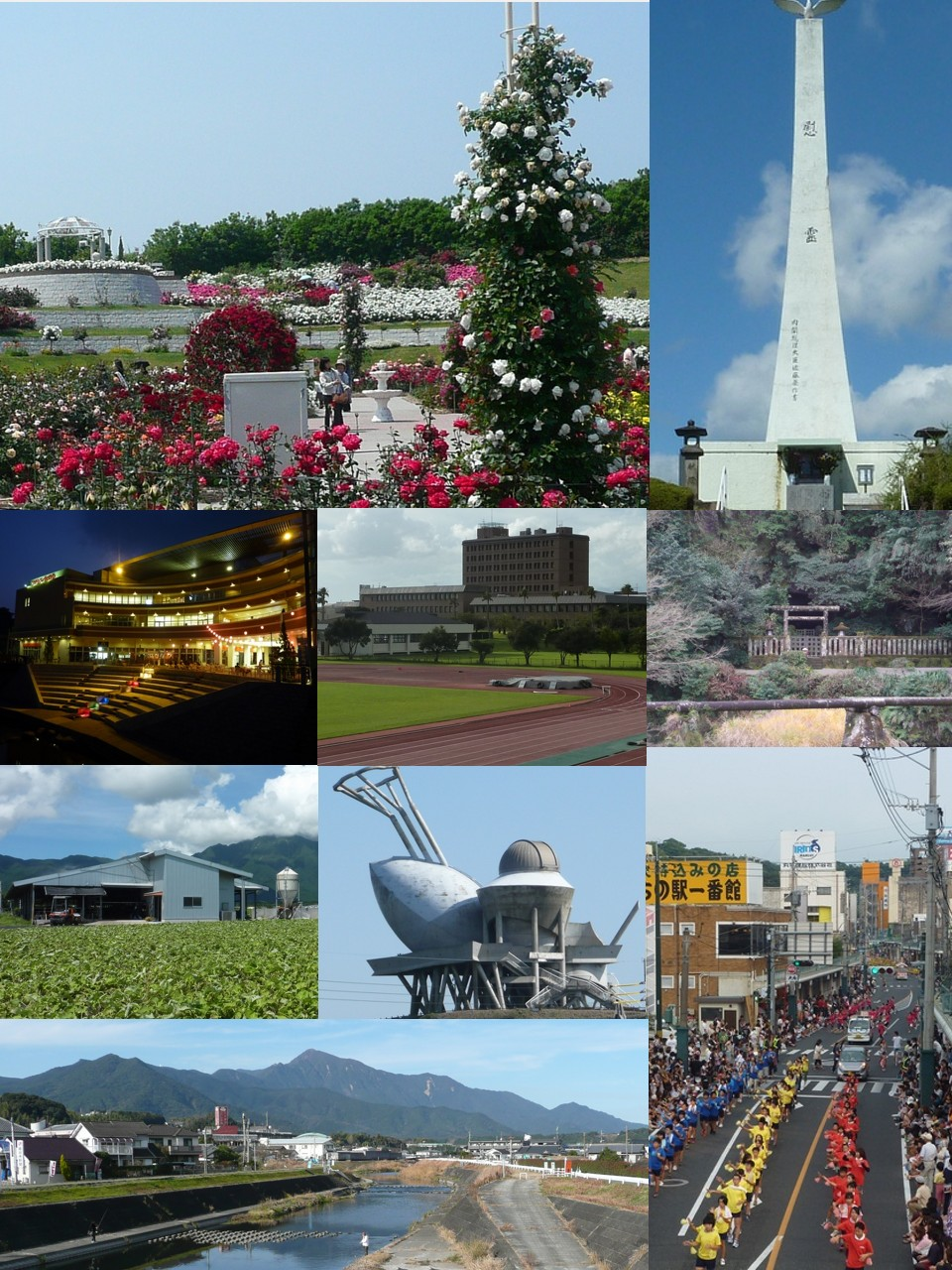 Montage of various Kanoya images